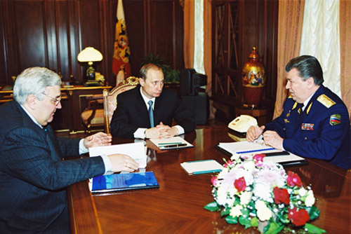 THE KREMLIN, MOSCOW. A meeting with Yury Koptev (left), head of the Russian Aerospace Agency, and Marshal Yevgeny Shaposhnikov, an aide to the Russian president.